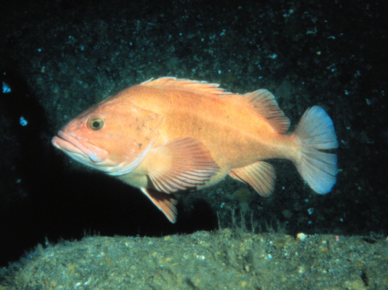 Yelloweye rockfish (Sebastes ruberrimus) is a species in a common genus of Pacific rockfish. Credit: OAR/National Undersea Research Program (NURP); Alaska Dept. of Fish and Game